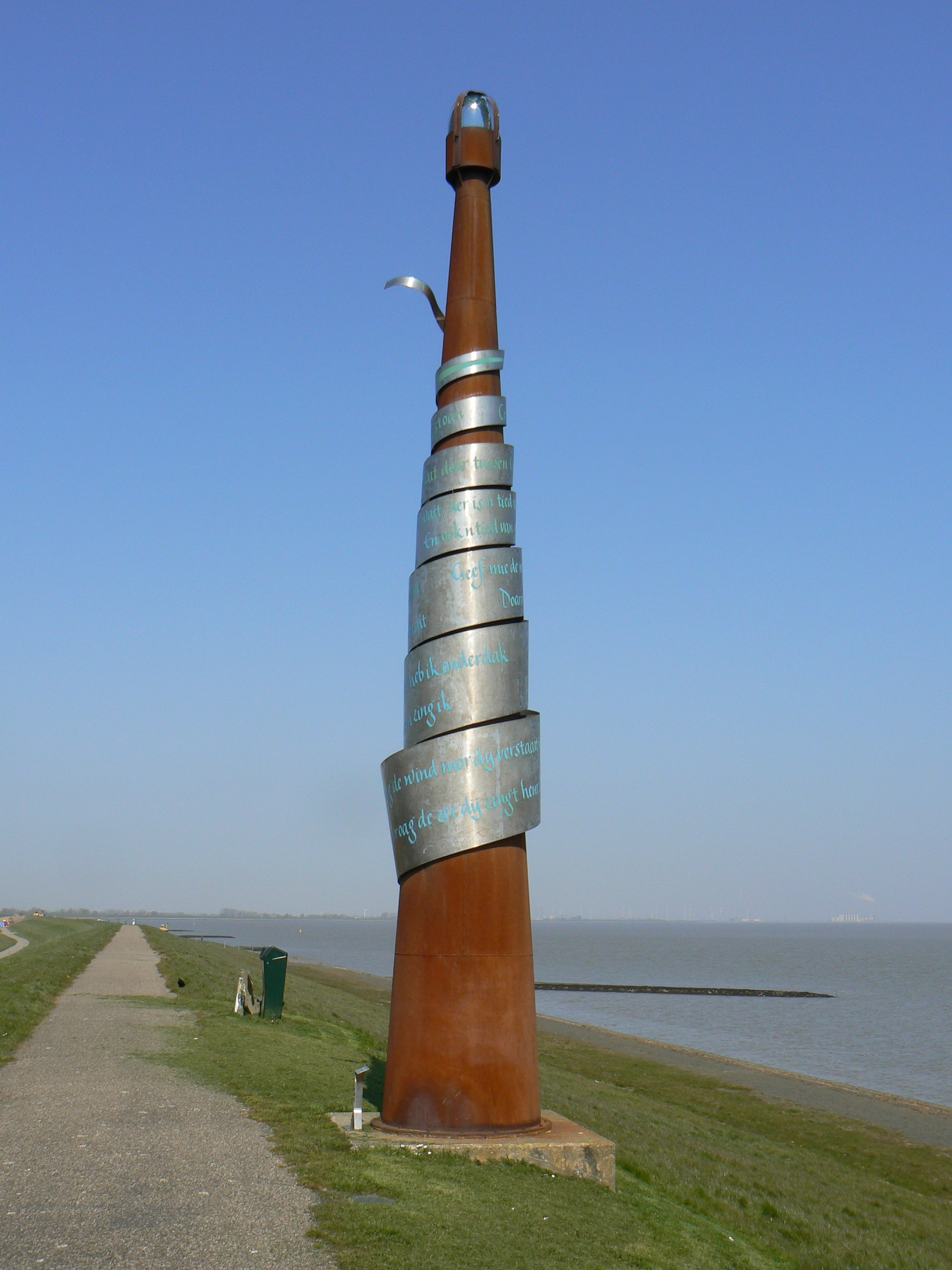 sculpture/memorial Ede Staal (2000) by Chris Verbeek in Delfzijl/The Netherlands